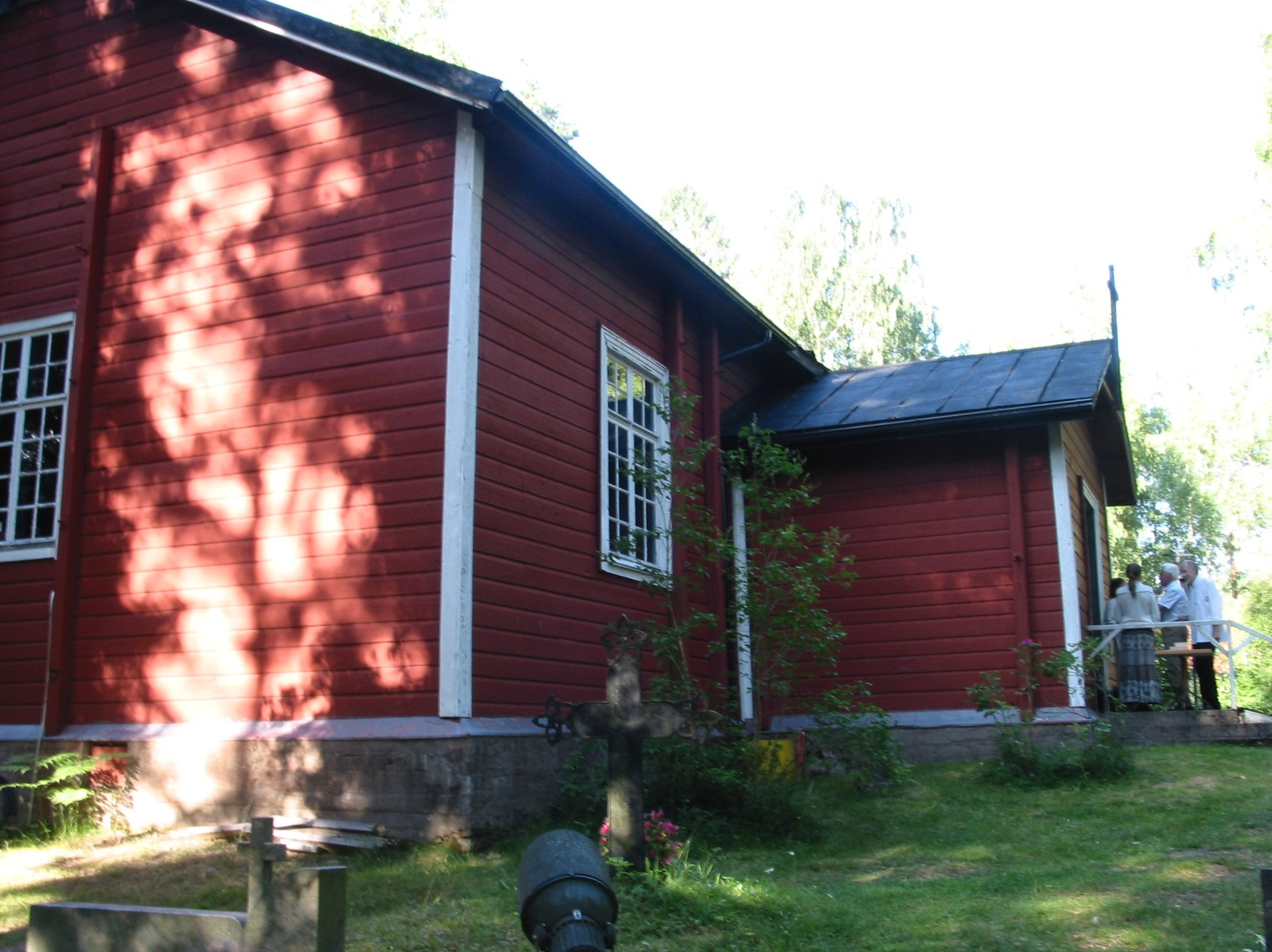 Kärkölä Church, Kärkölä, Nummi-Pusula, Finland